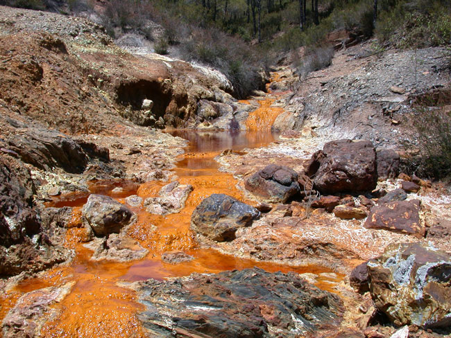 Acid mine drainage causes severe environmental problems in the Rio Tinto, Spain.